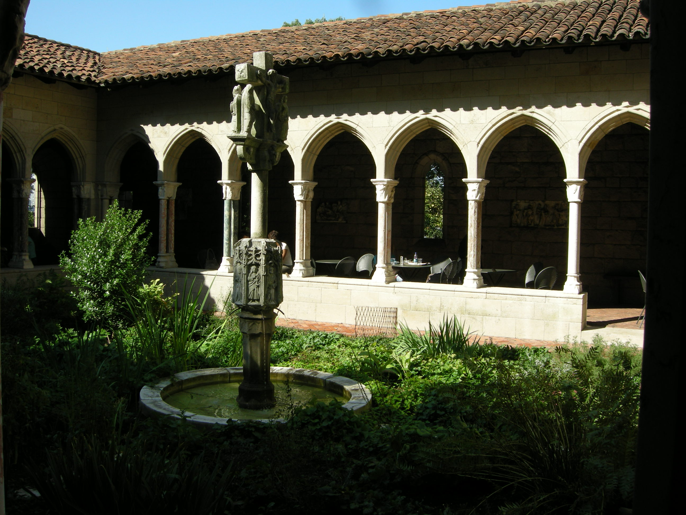 The cloisters, trie cloister